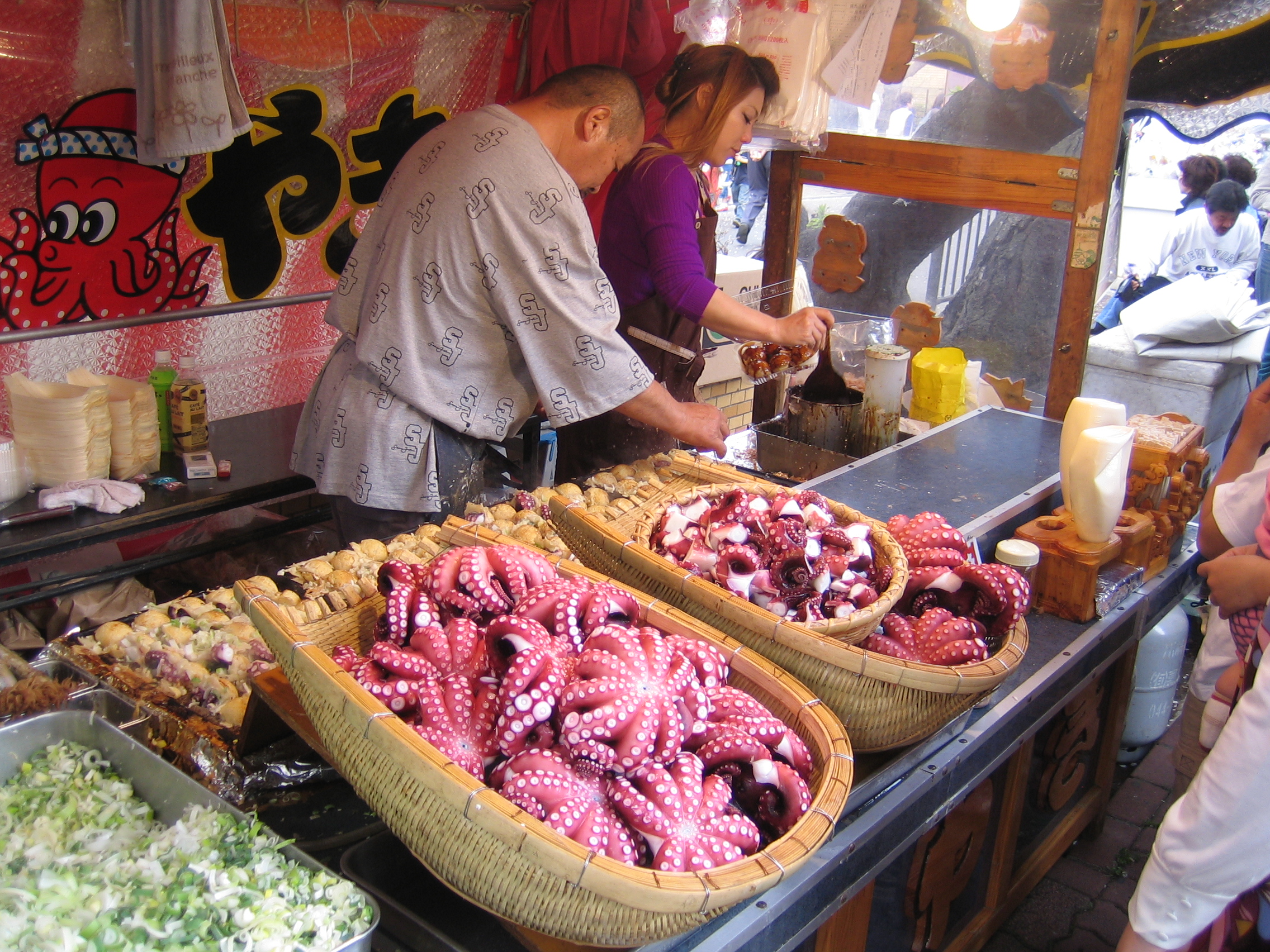 Magome Bunshimura Dai Sakura Matsuri (Cherry Blossom Festival at Magome Writer's Village)